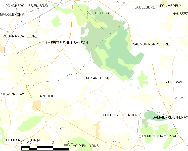 Map of French municipality Mésangueville